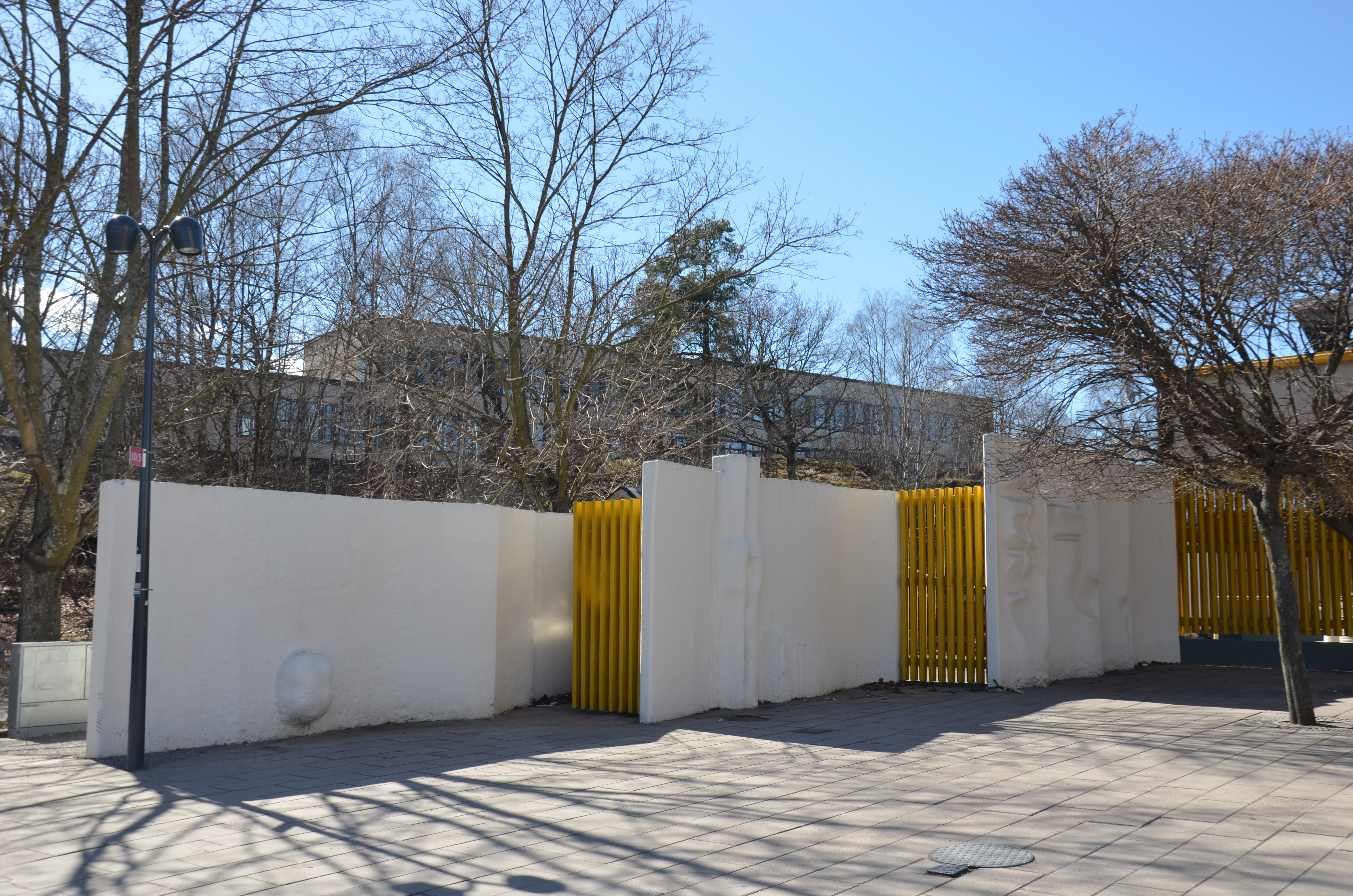 Eva Lange och Msrie Stenqvist, Sätra centrum, Stockholm, Sweden